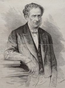 Jean-Baptiste-Marie Duvergier (25 August 1792 – 2 November 1877) was a French lawyer and expert on jurispudence who was known for his work in collecting and publishing laws and ordinances. He served as Minister of Justice and Cults in the government of Louis-Napoléon Bonaparte from 17 July 1869 to 2 January 1870. Portrait from Le Monde Illustré of July 1869